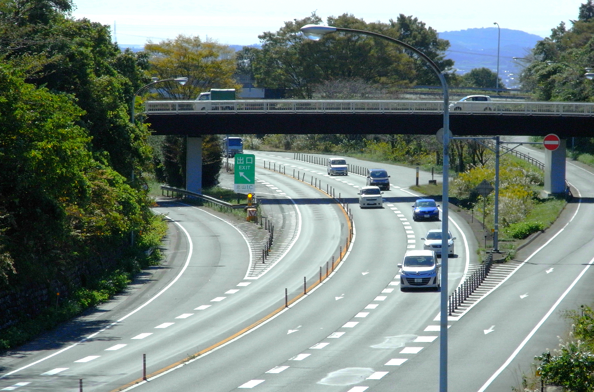 Fujinomiya Road Kitayama Interchange